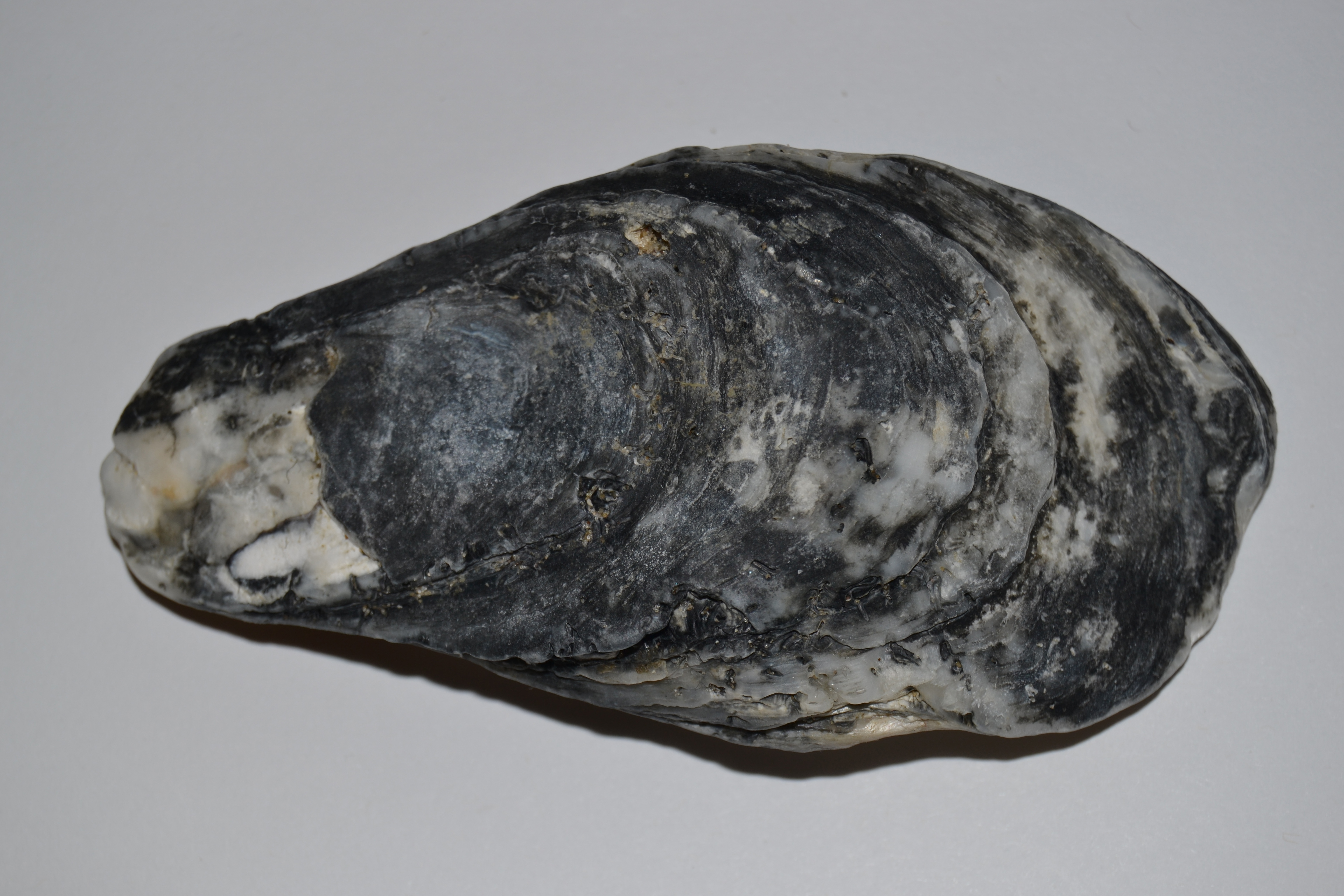 Possibly Subfossil! Hammonasset State Park, Madison, Connecticut